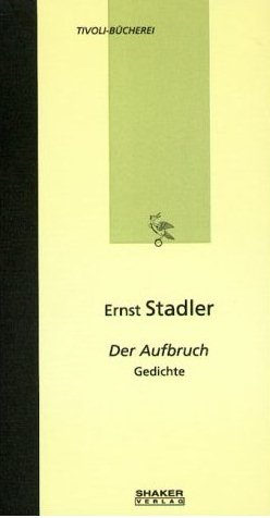 Book cover of Ernst Stadler "Der Aufbruch. Gedichte" 1914